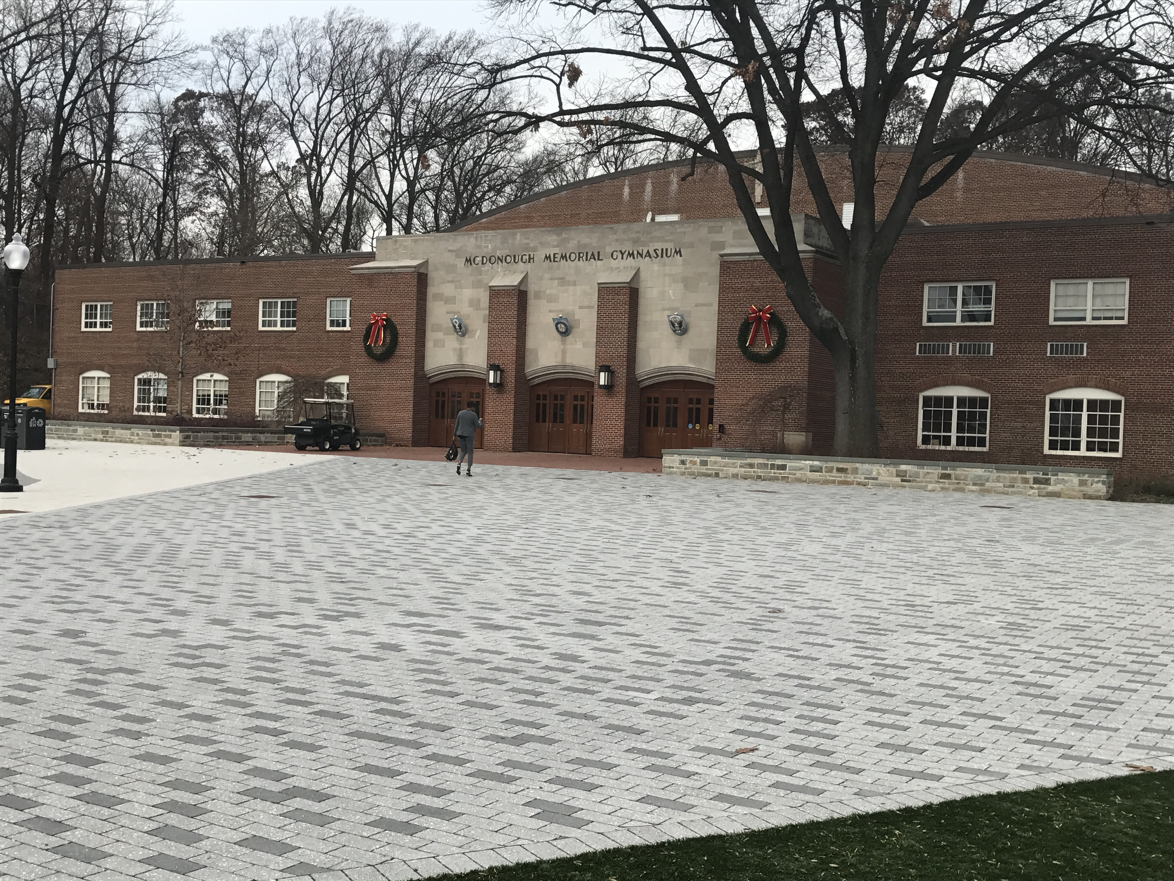 The Exterior of McDonough Gymnasium on the campus of Georgetown University